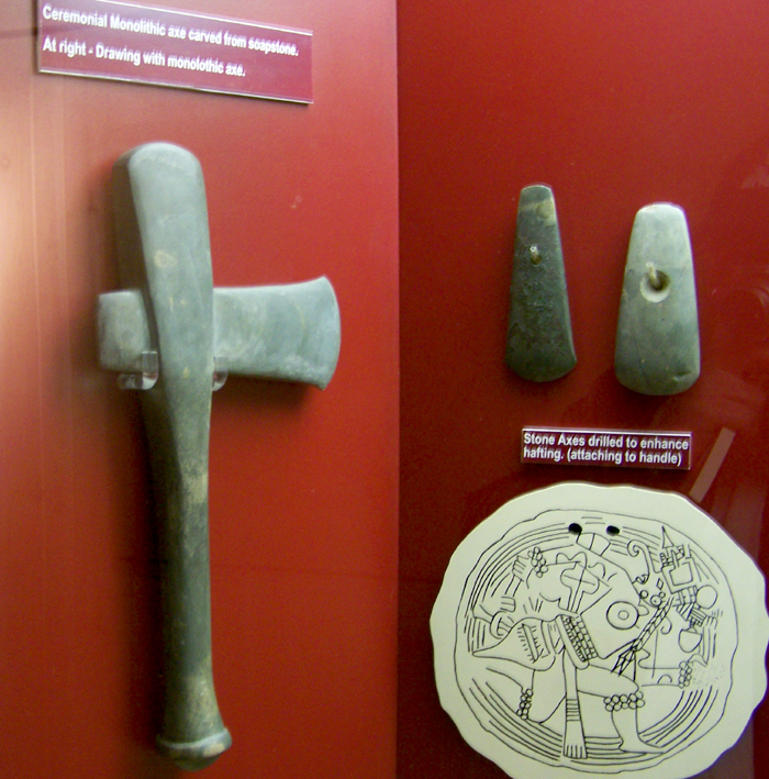 A Mississippian culture monolithic stone axe, discovered and on display at the Etowah Indian Mounds